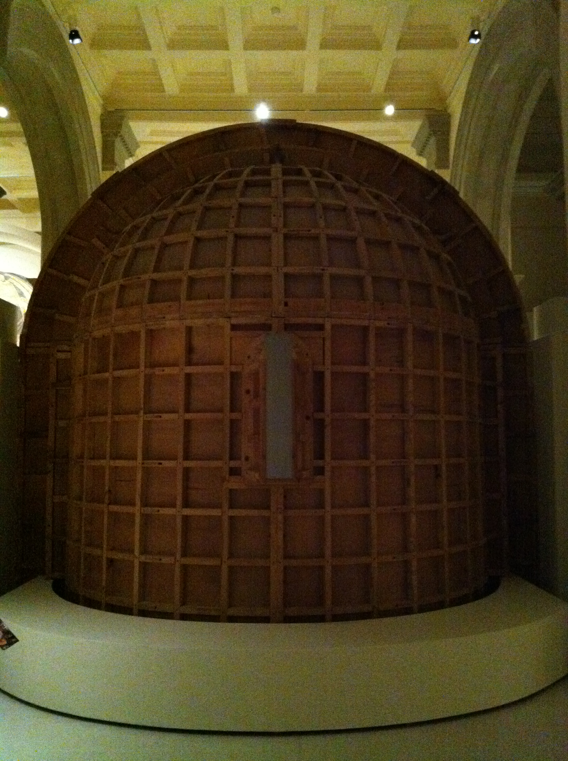 Reopening of the Romanesque collection of MNAC, Museu Nacional d'Art de Catalunya, in Barcelona